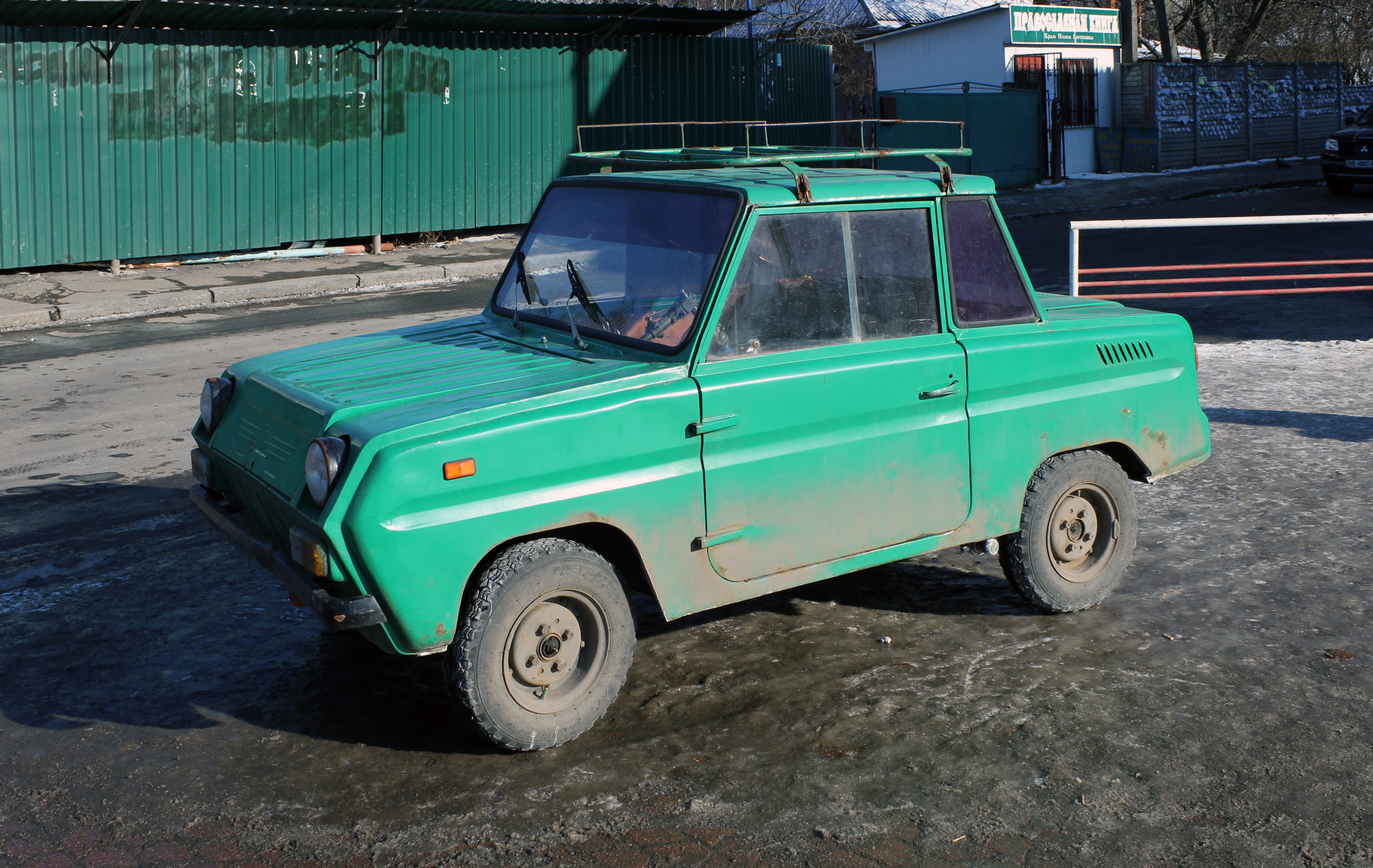 S-3D SMZ cycle-car was specially designed for use by disabled drivers. Was produced in Serpukhov Motorcycle Factory, Russia between 1970 and 1997. Ukraine, Vinnitsa.